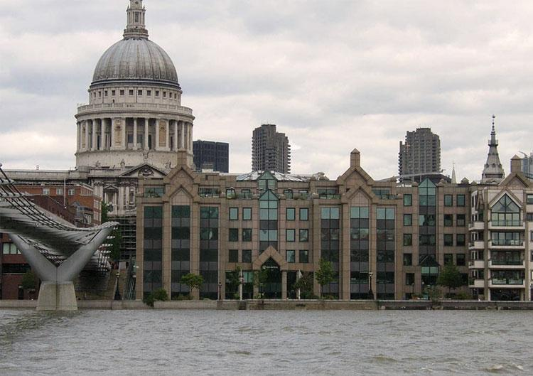 Photograph of Old Mutual Place, London